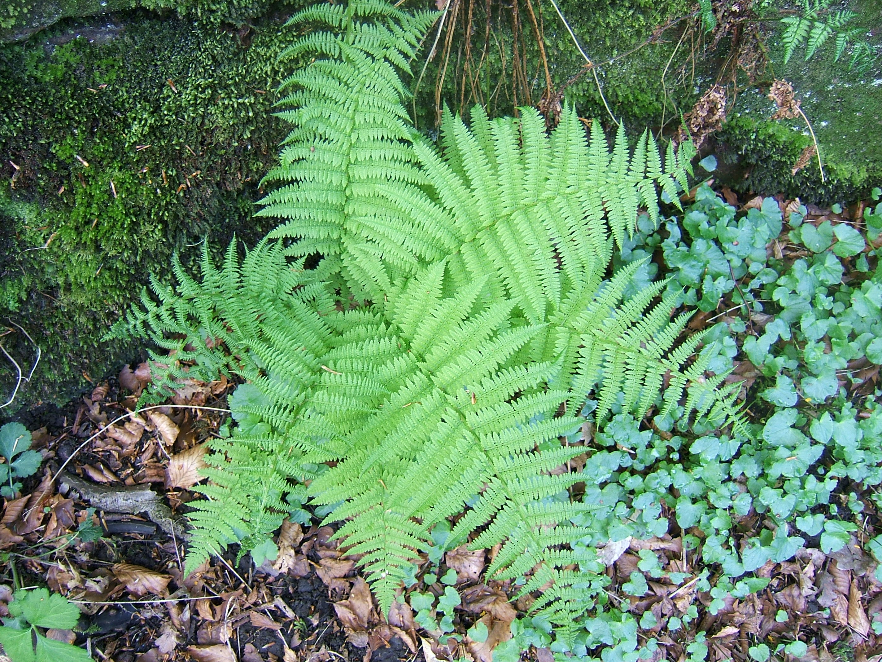 Athyrium filix-femina, Jesmond Dene, Newcastle, Northumberland, UK; 11 May 2006